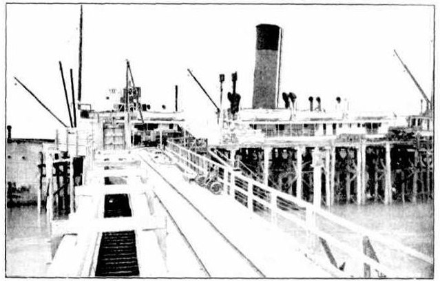 The SS Koombana berthed at the jetty at King Sound, Derby, Western Australia.